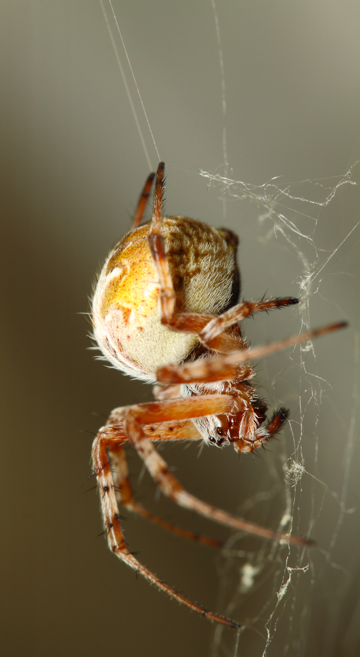 Labyrinth Orbweaver photographed with a Canon EOS 50D and Canon 100mm macro lens at ISO 200, F10, 1/5000 sec, and Canon 580ex speedlite.